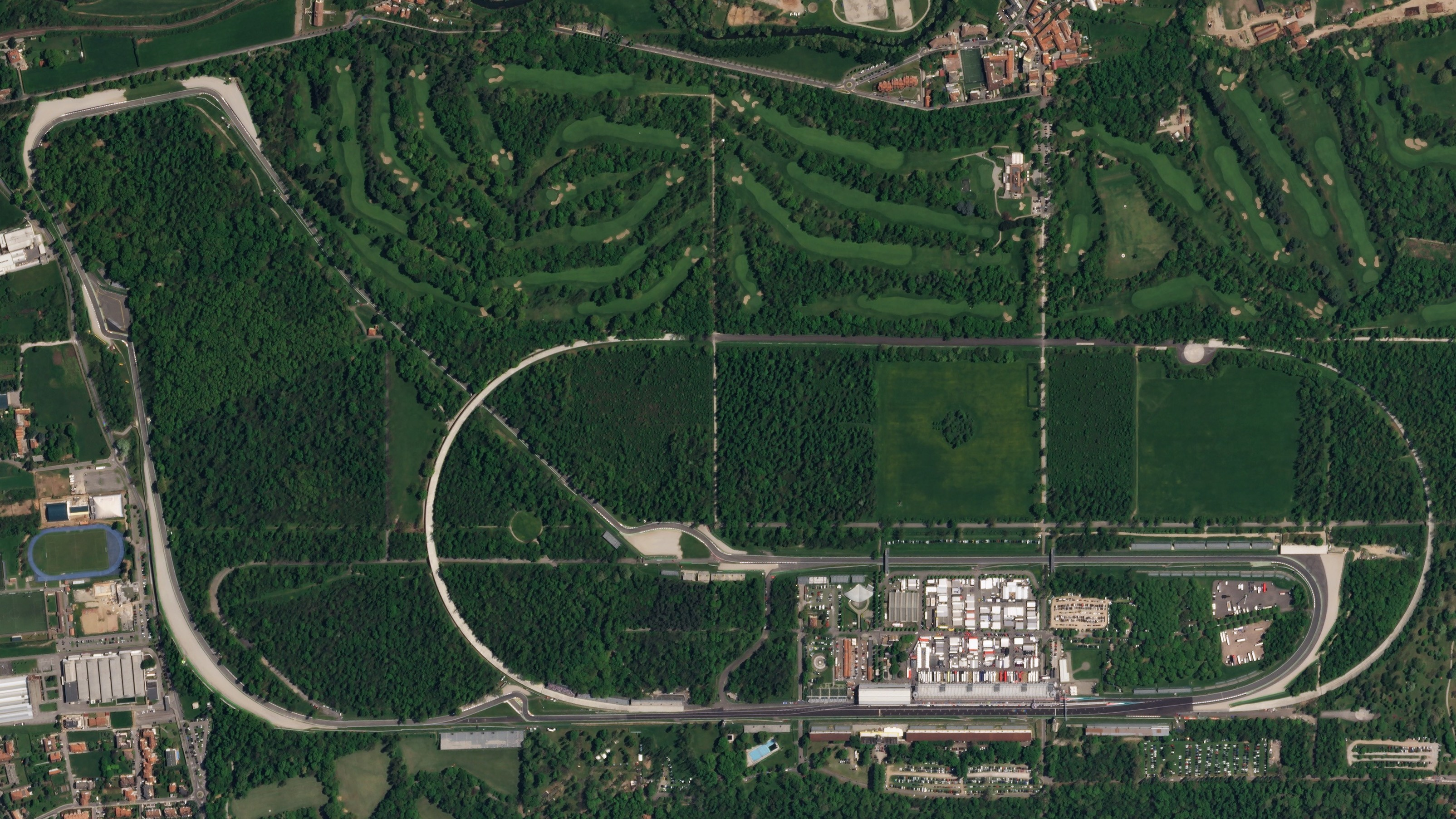 The Autodromo nazionale di Monza, a historic race track located near the city of Monza, north of Milan, in Italy and home to the the Formula One Italian Grand Prix. Image taken on April 22, 2018, by a Planet Labs SkySat satellite.